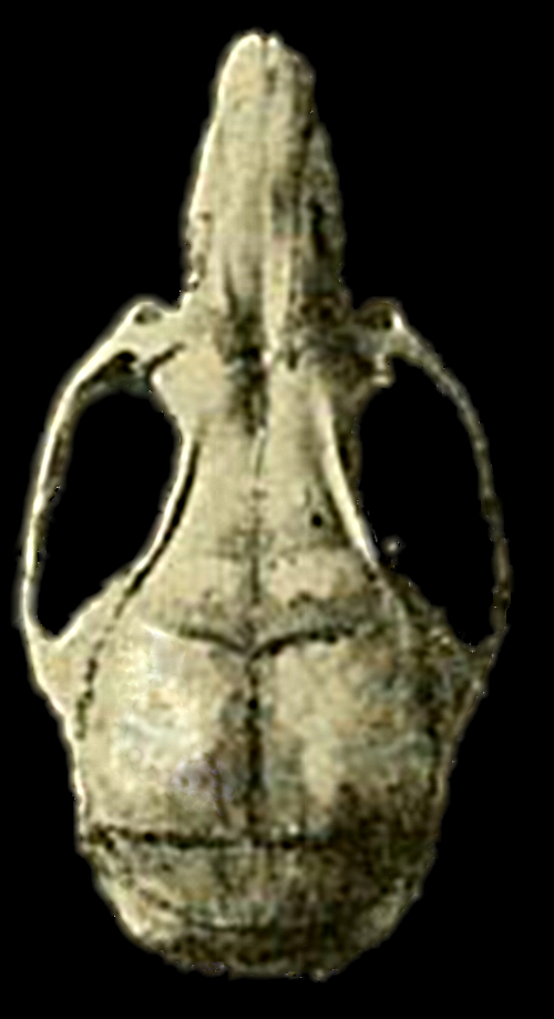 Skull of Oryzomys bombycinus bombycinus (now Transandinomys bolivaris), seen from above. This is specimen USNM 171103, an adult female from Cerro Azul, Panama.